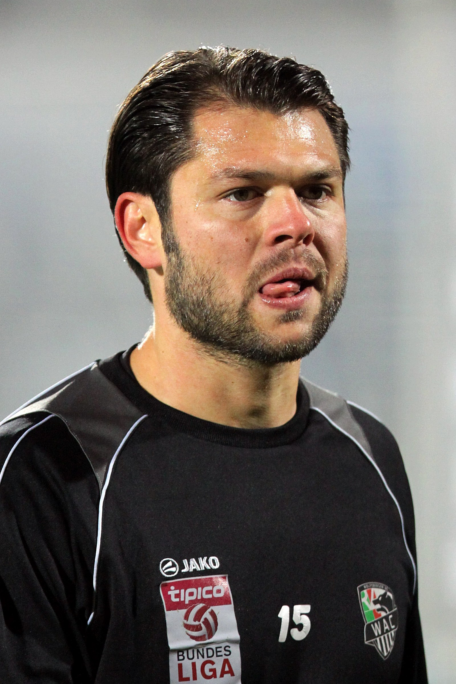 2014–15 Austrian Football Bundesliga: SC Wiener Neustadt vs. Wolfsberger AC (2:0 / 0:0) at 2014-11-22 in the Stadion Wiener Neustadt. – The photo shows en: (SC Wiener Neustadt/Wolfsberger AC). The making of this work was supported by Wikimedia Austria. For other files made with the support of Wikimedia Austria, please see the category Supported by Wikimedia Österreich.